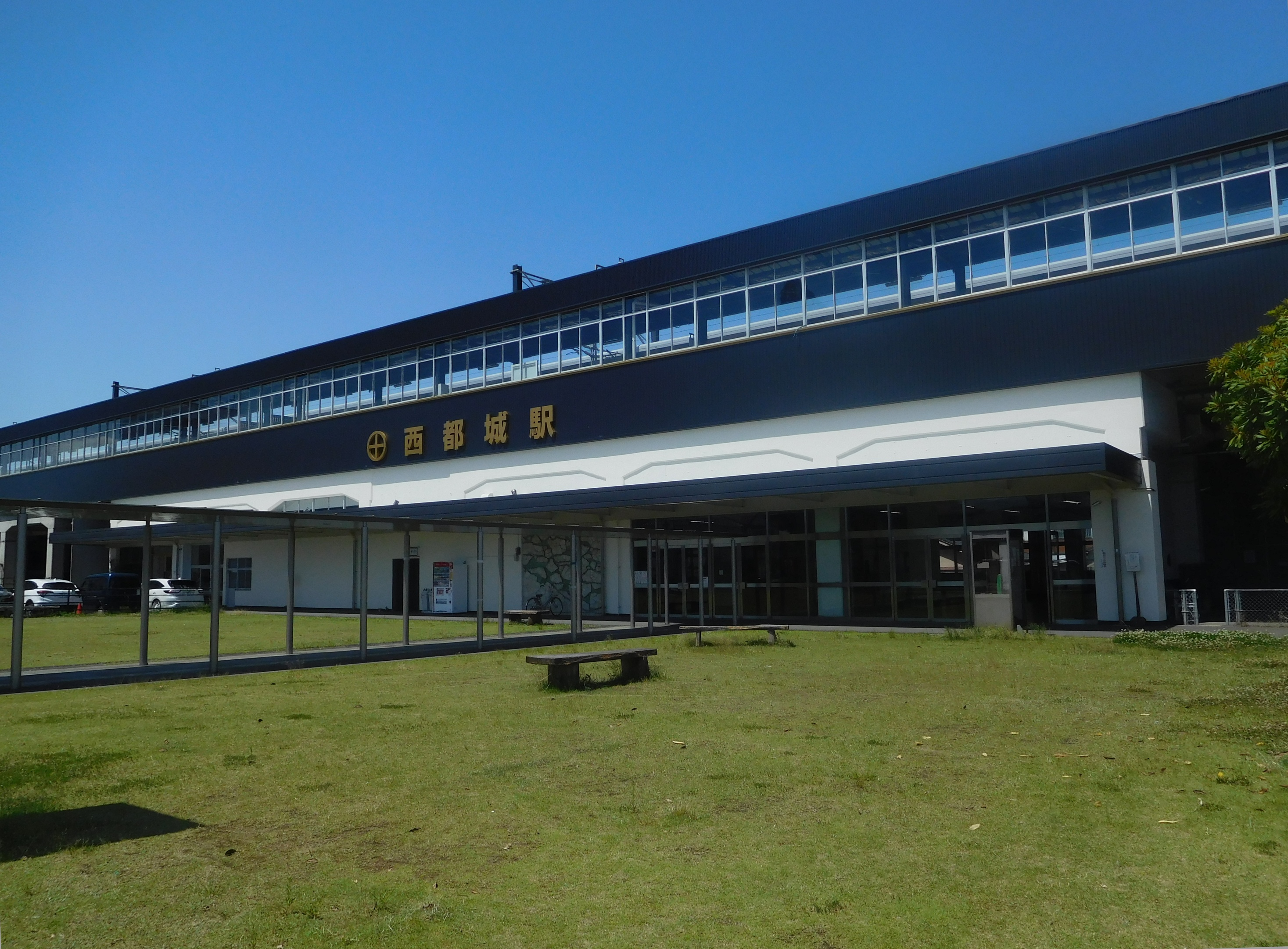 JR Kyushu Nippo Main Line - Nishi-Miyakonojo Station (Miyakonojo City, Miyazaki Prefecture, Japan)